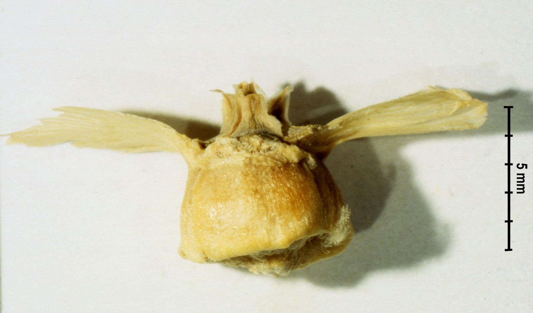 Fruit of Halothamnus auriculus. lateral view (wings partially removed). Herbarium specimen collected in Iran by H. Freitag No. 13656